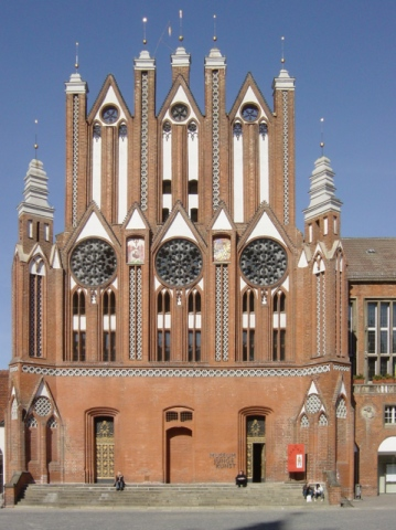 Town hall of Frankfurt (Oder)